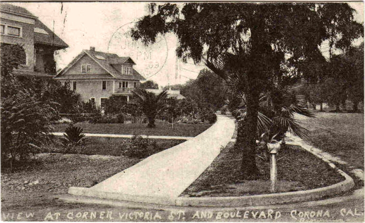 Black and white postcard depicting homes on the corner of Victoria Street and (Grand) Boulevard in the city of Corona, California. The back of the postcard is divided and was postmarked in 1909.